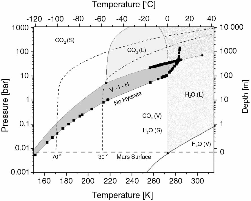 Author: Georgi Genov, Source: Georgi Genov - Genov, G. Y. (2005) Physical processes of CO2 hydrate formation and decomposition at conditions relevant to Mars. Ph.D. Thesis, University of Göttingen., , CO2 hydrate phase diagram. The black squares show experimental data (after Sloan, 1998). The lines of the CO2 phase boundaries are calculated according to the Intern. thermodyn. tables (1976). The water phase boundaries are only guides to the eye. The figure is made by me; and all phase boundary calculations are made by me. All other sources used are properly acknowledged in the text or in the figure caption.